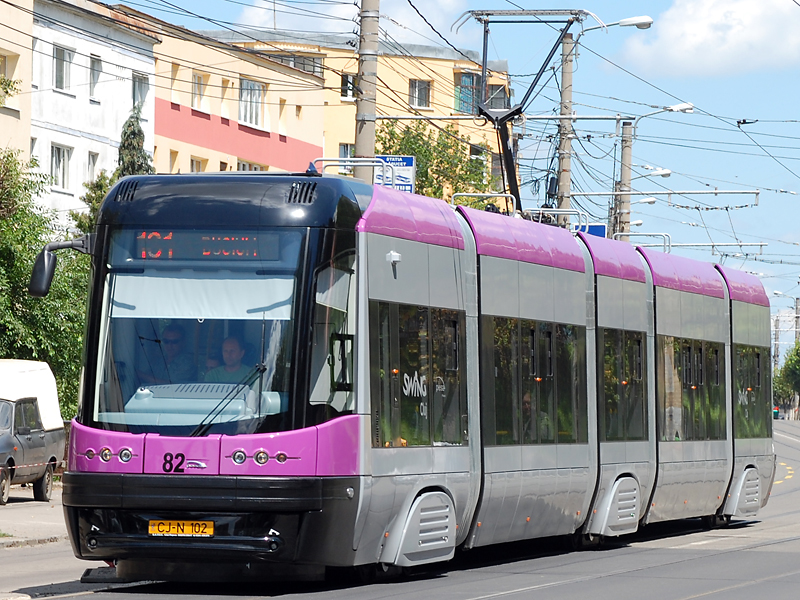 Pesa 120Nc in Cluj Napoca nr 82